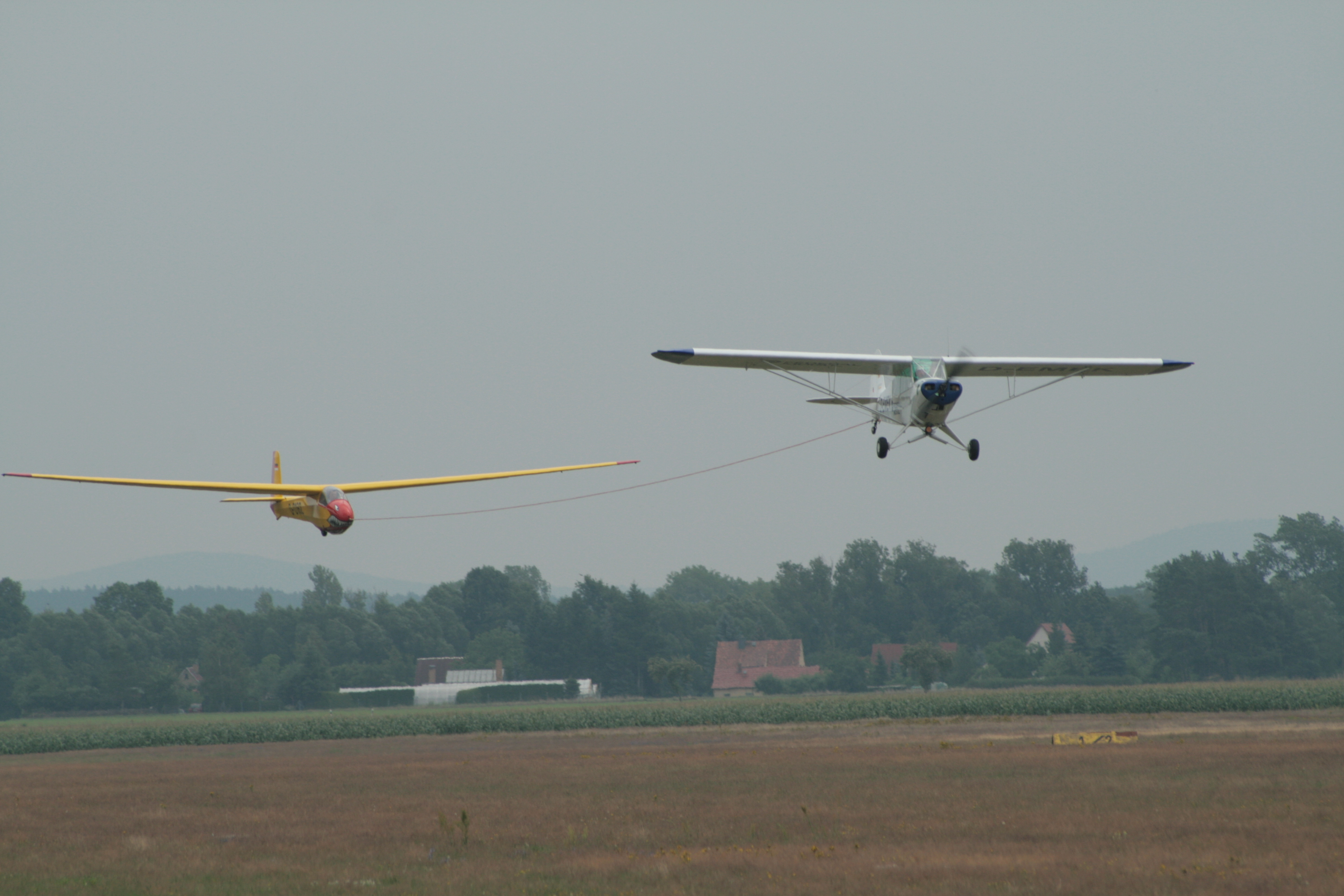 An aerotow launch of a Schleicher Ka8 by a Piper PA 18.